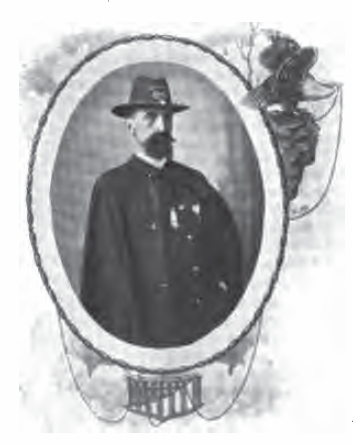 John F. Chase, cannoneer in the U.S. Army, received the Medal of Honor for his actions at the Battle of Chancellorsville during the American Civil War.